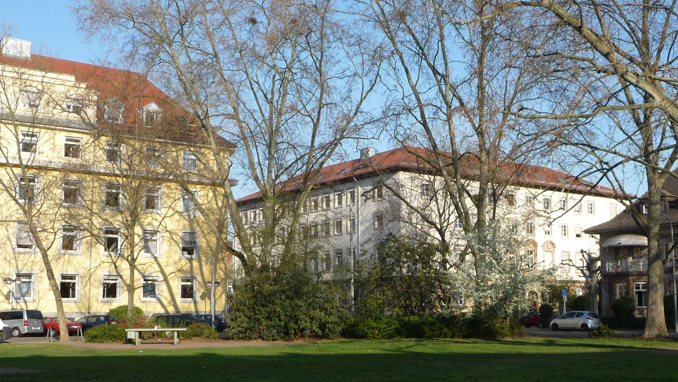 Buildings in Ludwigshafen, Germany